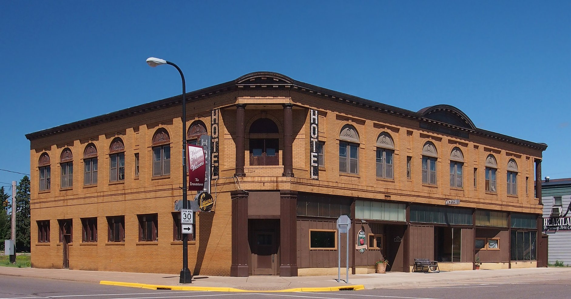 Spina Hotel, Ironton, Minnesota, USA. Viewed from the southeast.